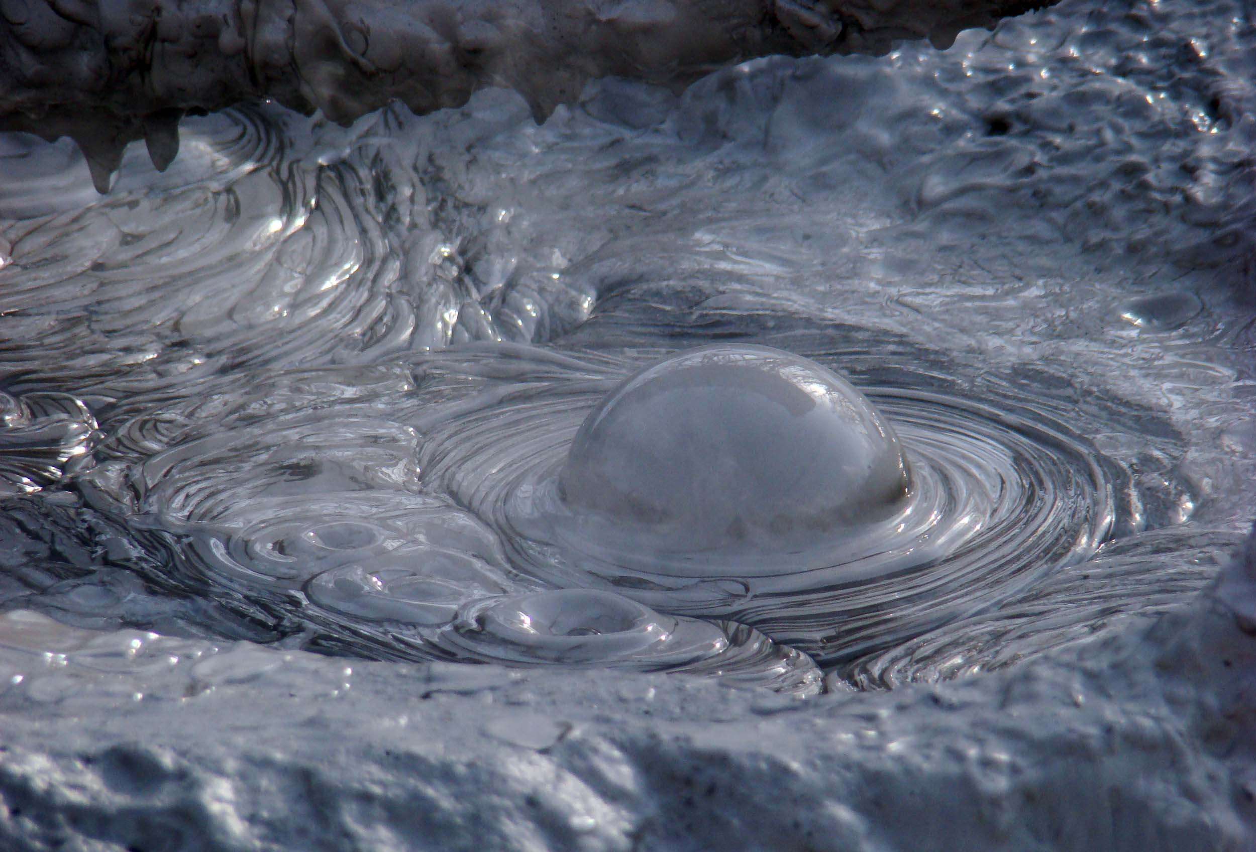 Mud pot, Akan National Park, Japan